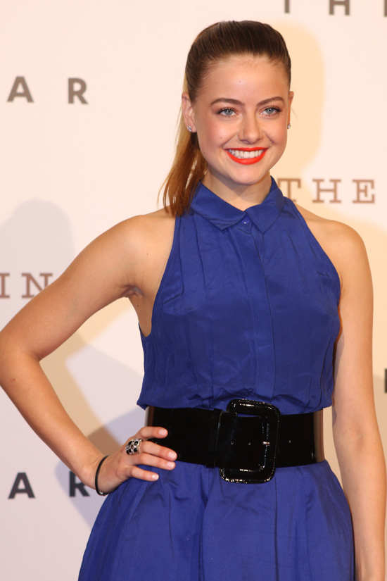 Stevie Wonder Media Frenzy Star City Lyric Theatre; Red Carpet Report, by Eva Rinaldi - 25th October 2011 Stevie Wonder was the headline act tonight, as he performed to an intimate audience of 2000 patrons, paying between $225 to $455 to see the music legend close up. Around the corner on the red carpet, news media waited for the celebs. The name listed included Jennifer Hawkins and Jake Wall, Kate Richie and Stuart Webb, Wendell Sailor and wife Tara, Ricki-Lee Coulter and boyfriend Richard Harrison. Does anyone know how much the celebs are getting paid to turn up to Star invites, or is it just a win - win, all done to generate positive media buzz? Finally, after what seemed like hours for Russell Crowe and beautiful wife, Danielle Spencer did the red, fresh off dinner at the revamped casino aka integrated entertainment complex. For the record, Stevie Wonder did not do the red carpet. Promoters across Australia, if not the world, are attempting to find out how much money Mr Wonder is making for his intimate appearances at The Star, and that's likely to be something that is kept well under wraps for a while yet. The Star may be a bit of a media darling at the moment, but nothing lasts forever. The Star would do well to go out of their way to also impress news media who have been quite supportive of the Echo Entertainment owned complex, since they first announced it was going to get a massive makeover. We've heard that the next trump card for more news headlines will be the official opening of The Darling, the 5 star boutique lifestyle hotel and spa. Just how long it may take The Star to recoup its almost billion dollar casino revamp investment is unknown, but Echo Entertainment looks to be in this for the long haul, so good on them. Websites The Star Echo Entertainment The Darling Eva Rinaldi Photography Eva Rinaldi Photography Flickr Casino News Media Splash News